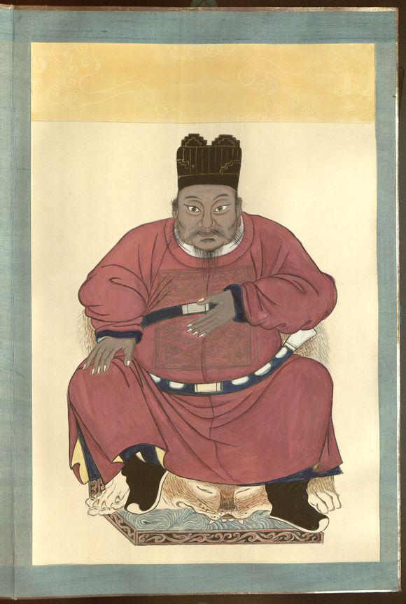 Mu Tu, a local commander of Lijiang